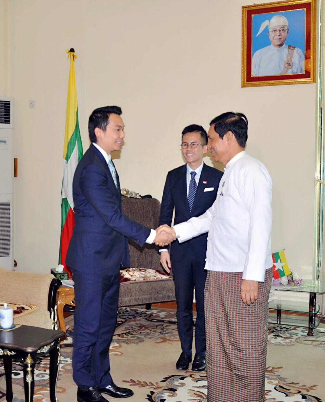 Yap's meeting with Myanmar Minister of Industry Khin Maung Cho on 25 May 2017 in Nay Pyi Taw.